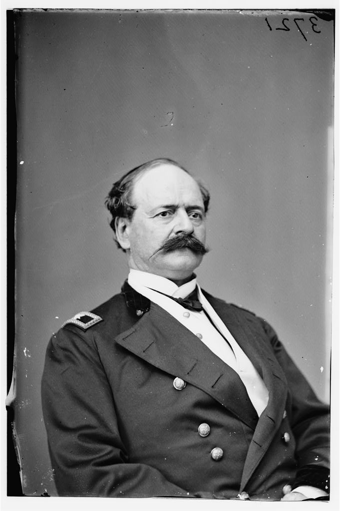 Henry Dwight Terry, half-length portrait, facing right.